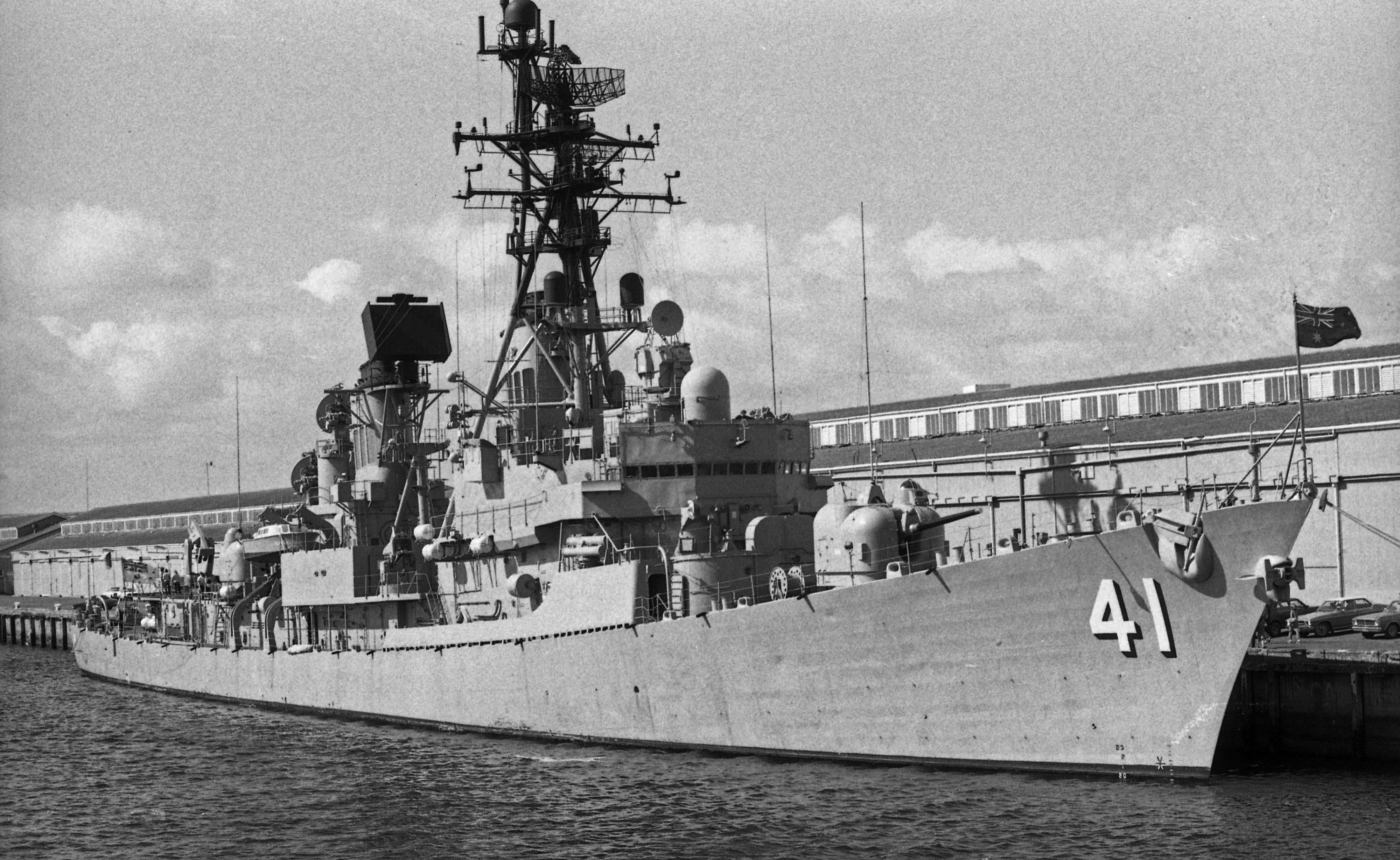 HMAS Brisbane (D 41) berthed at Port Adelaide in August 1981.